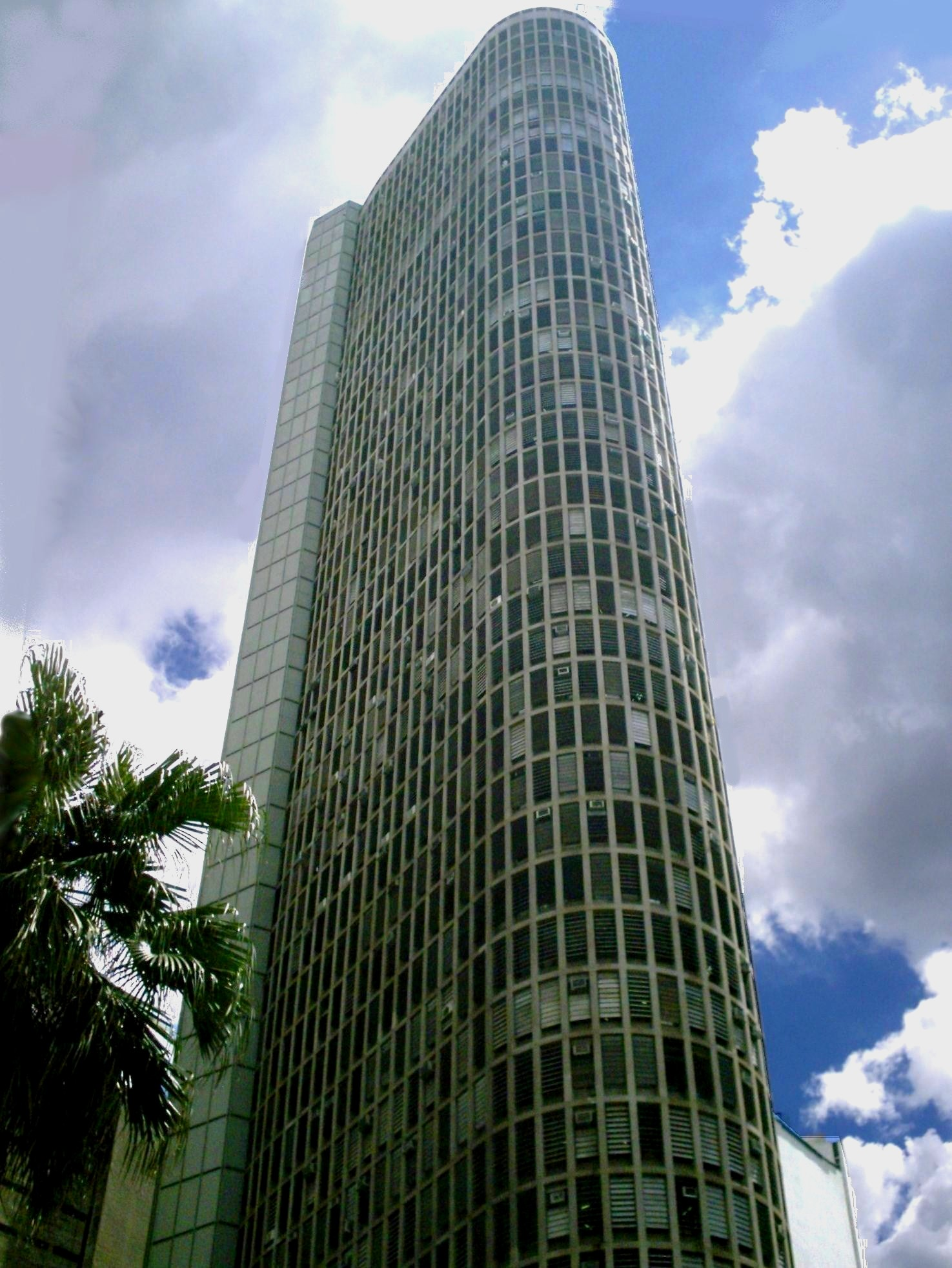 Itália Building in São Paulo